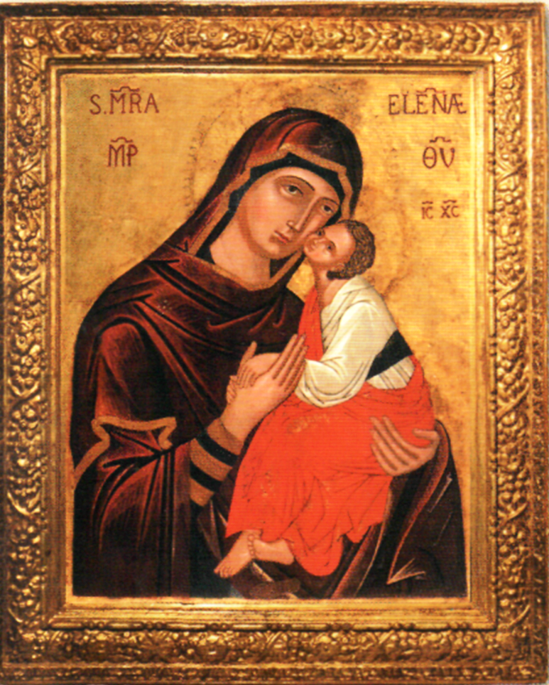 paper of Byzantine image of the fifteenth century, Saint Mary of the Elemosina